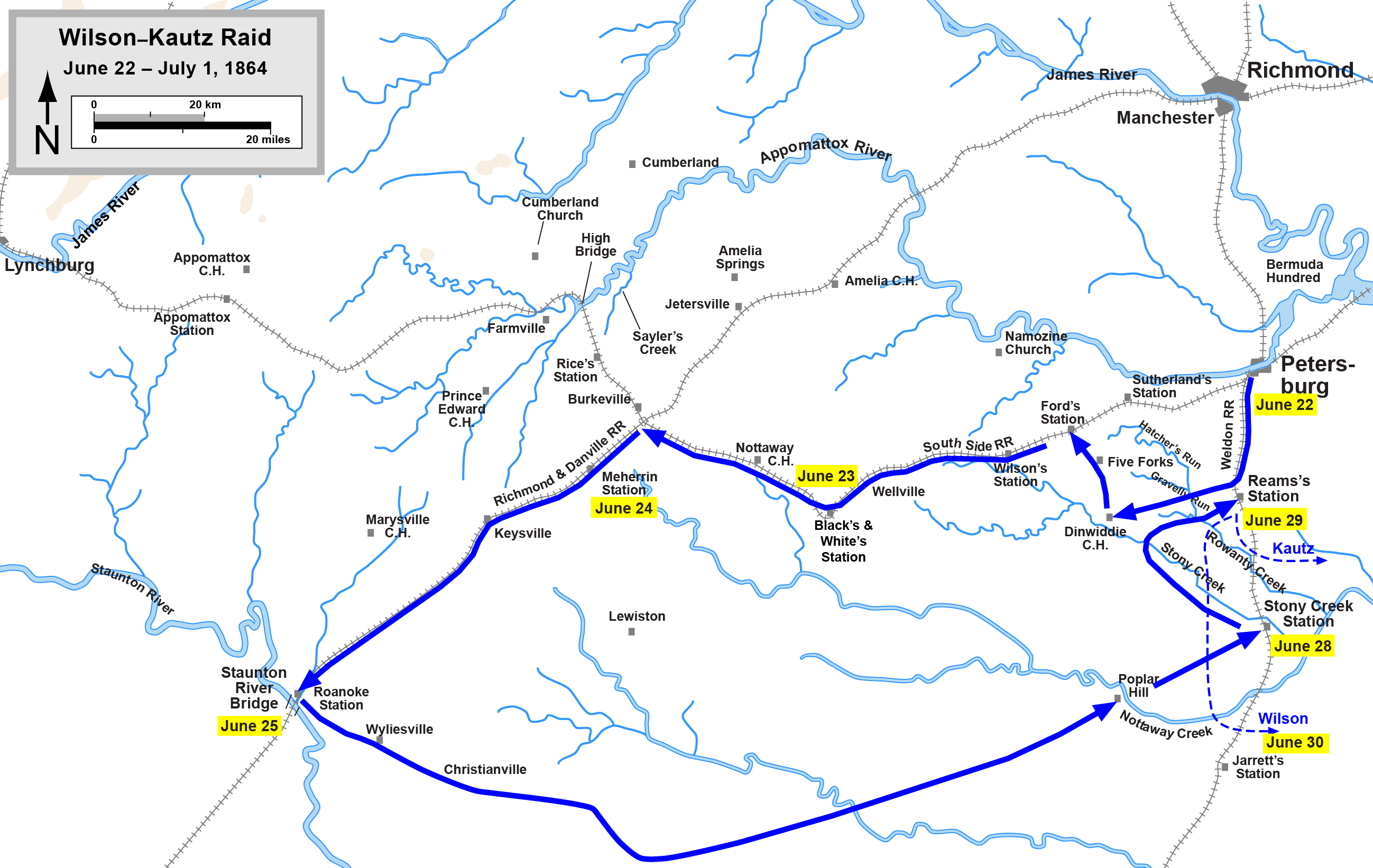 Wilson-Kautz Raid, June 22 – July 1, 1864